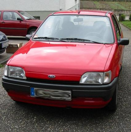 Ford Fiesta, Mark III